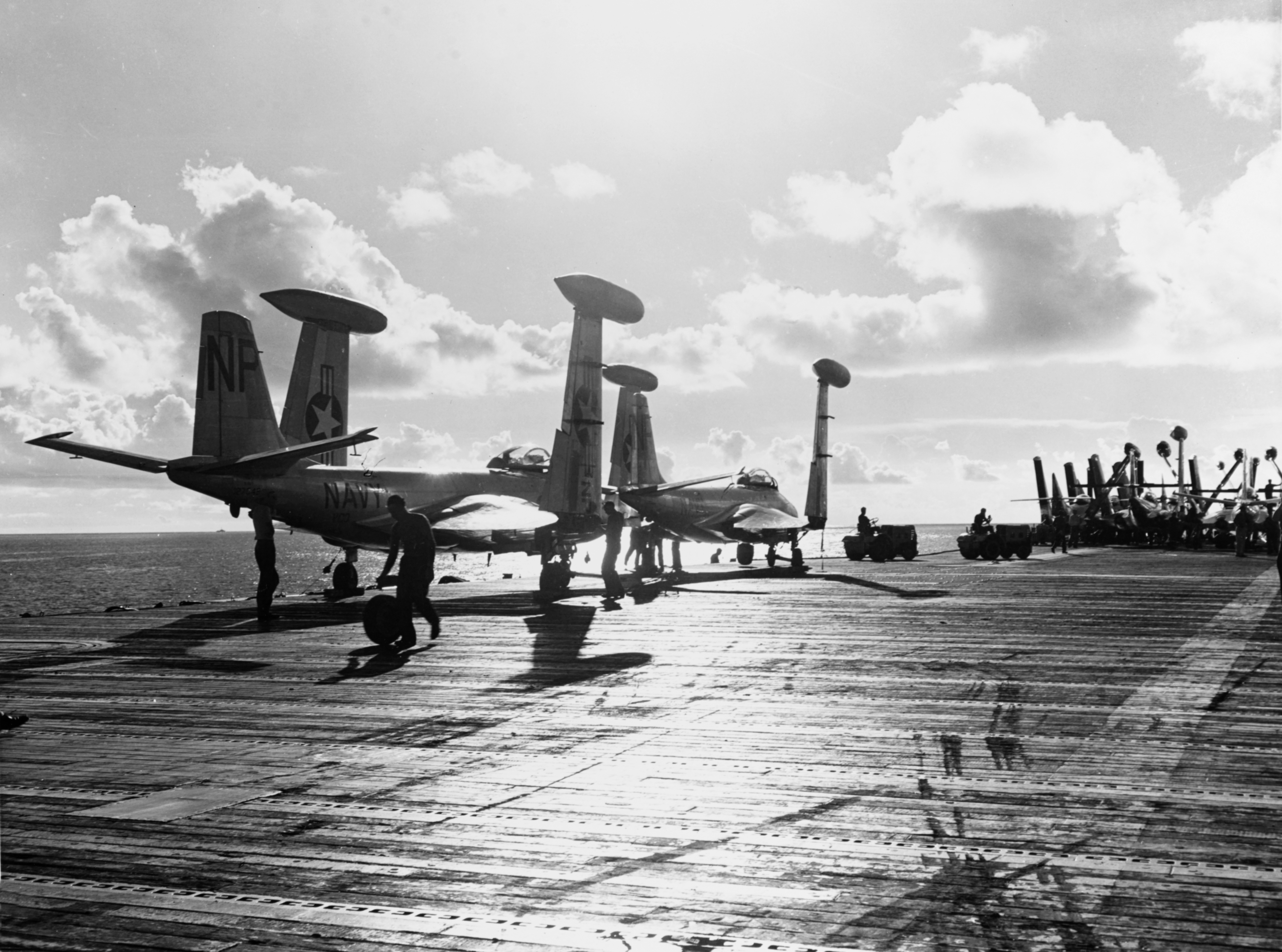 Two U.S. Navy McDonnell F2H-3 Banshees of Composite Squadron 3 (VC-3) Det.M "Blue Nemesis" are parked flight deck of the aircraft carrier USS Hornet (CVA-12), during U.S. Seventh Fleet operations in the Far East, 1 October 1954. The plane closest to the camera is BuNo 127542. VC-3 was assigned to Carrier Air Group 9 (CVG-9) aboard the Hornet for her world cruise from 11 May to 12 December 1954.